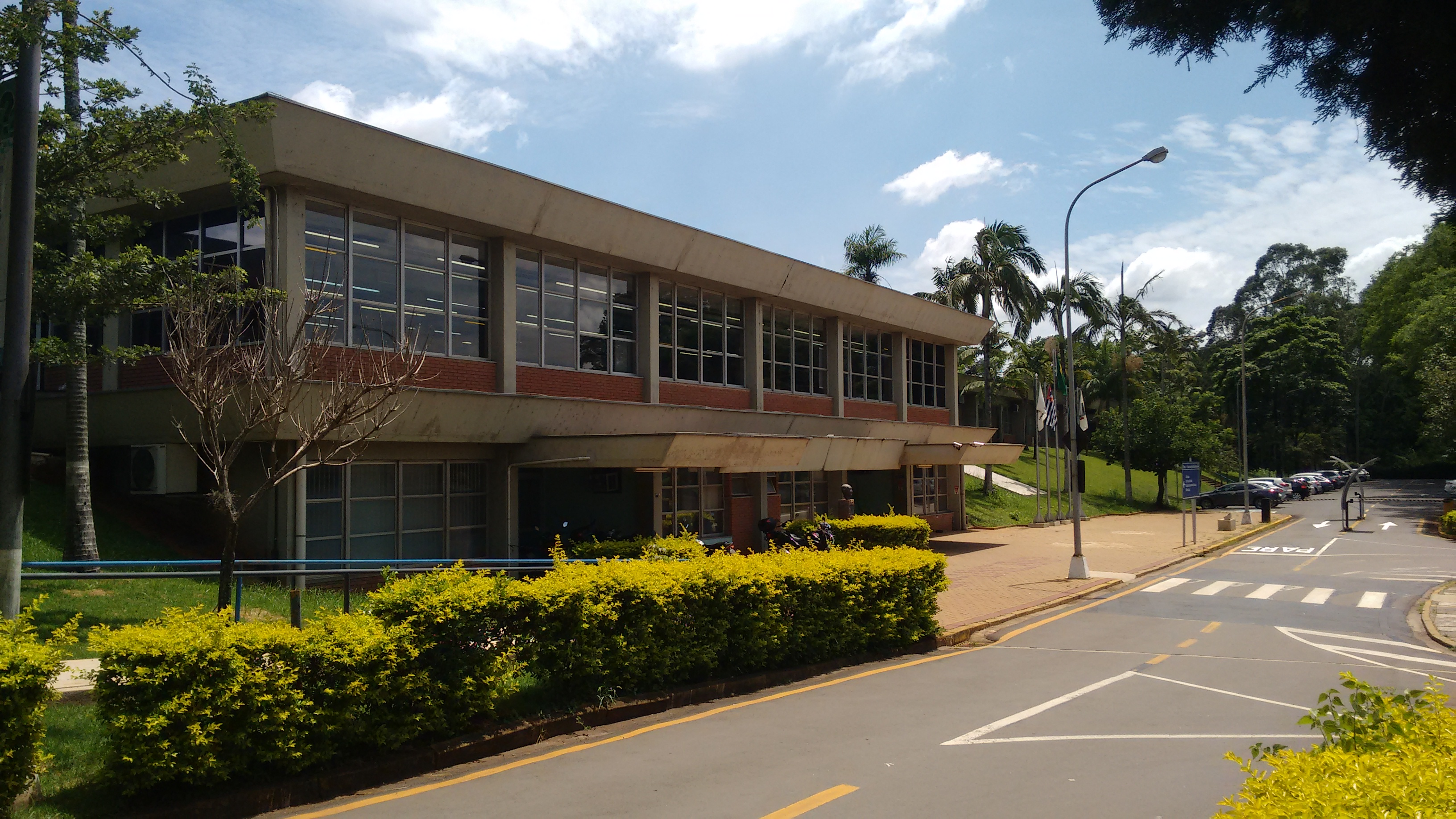 School of Dentistry of Piracicaba